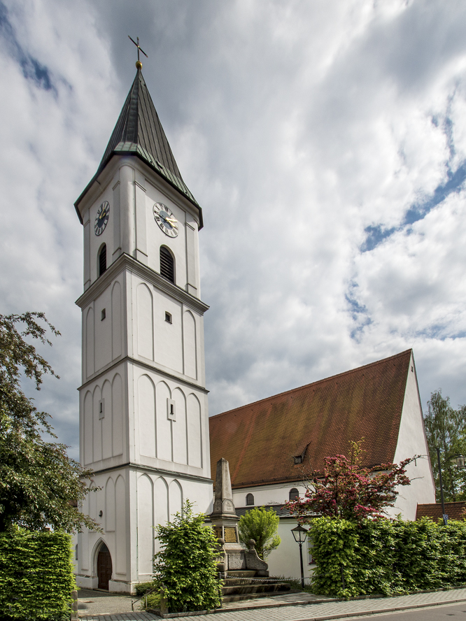 Stadtpfarrkirche Wörth an der Donau